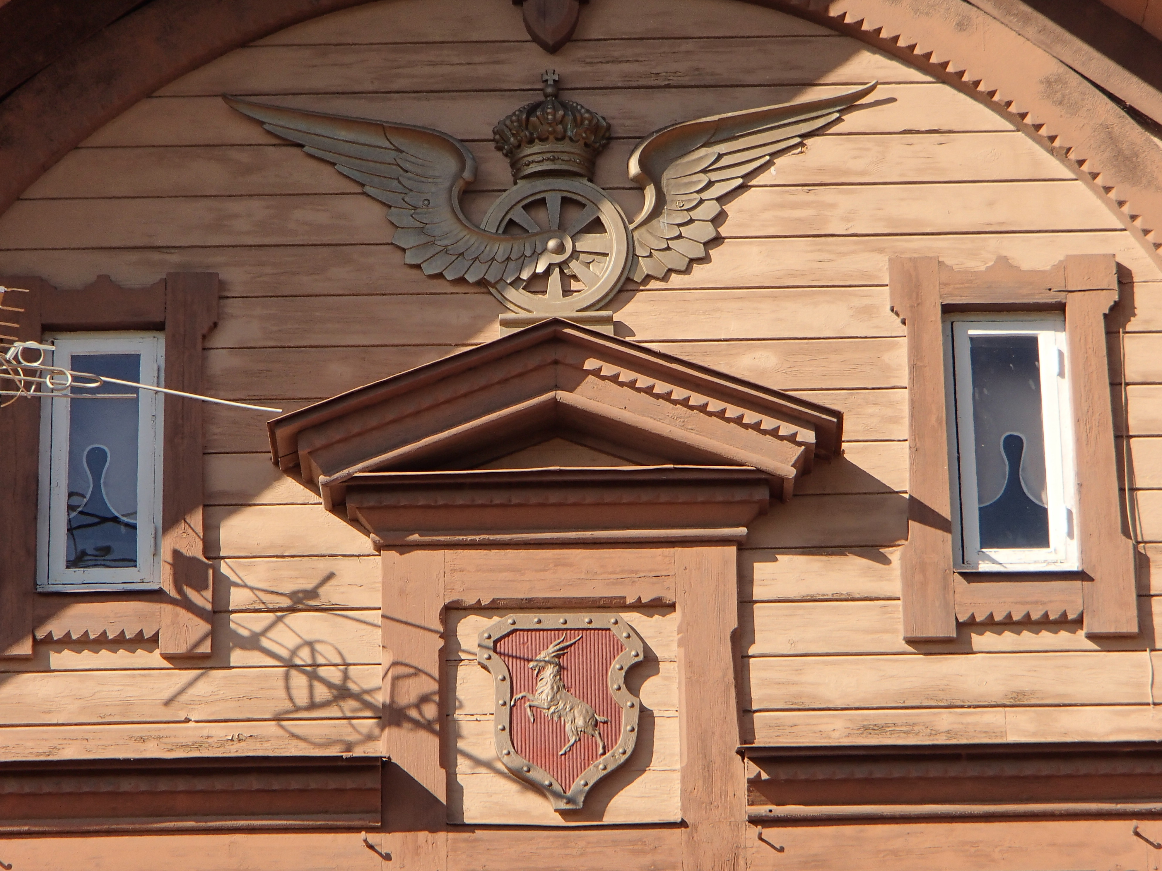 The former train station building of "Hybo stationshus" at Hybo byväg 10 in Hybo, Ljusdal Municipality